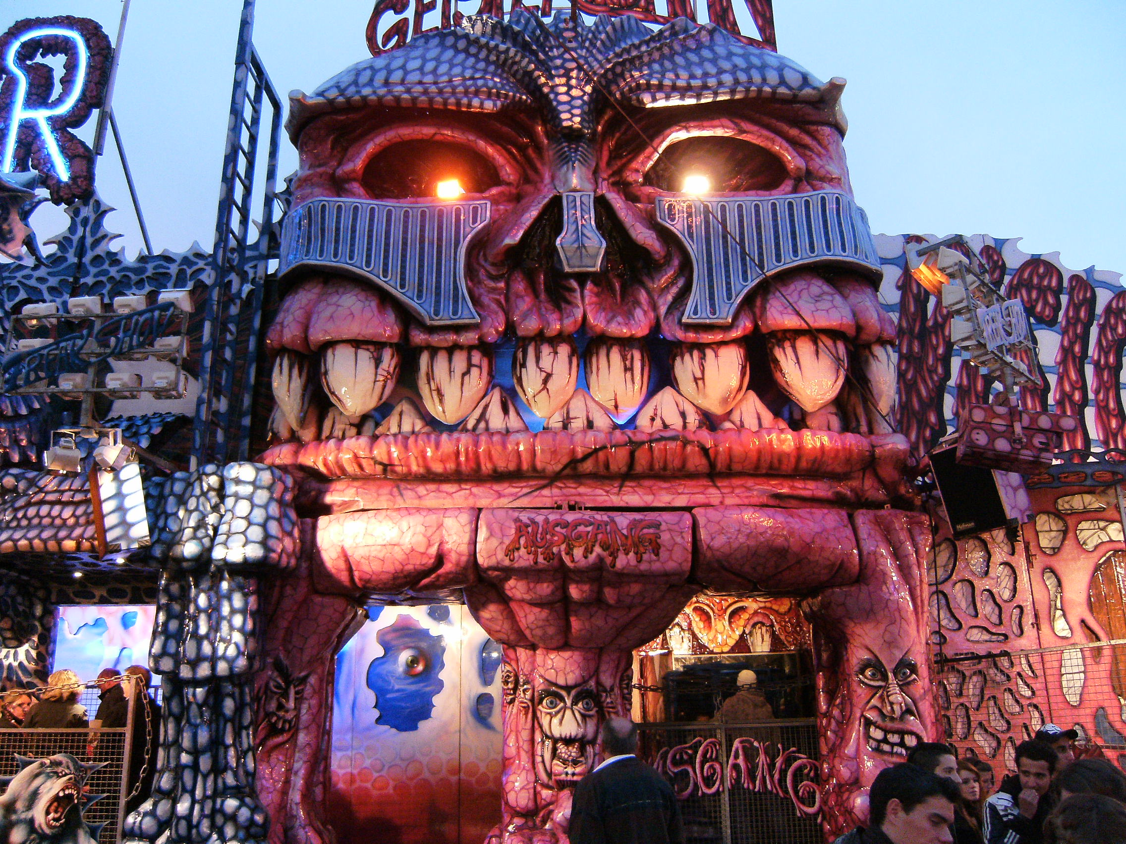 Ghost train on the Munich Oktoberfest.